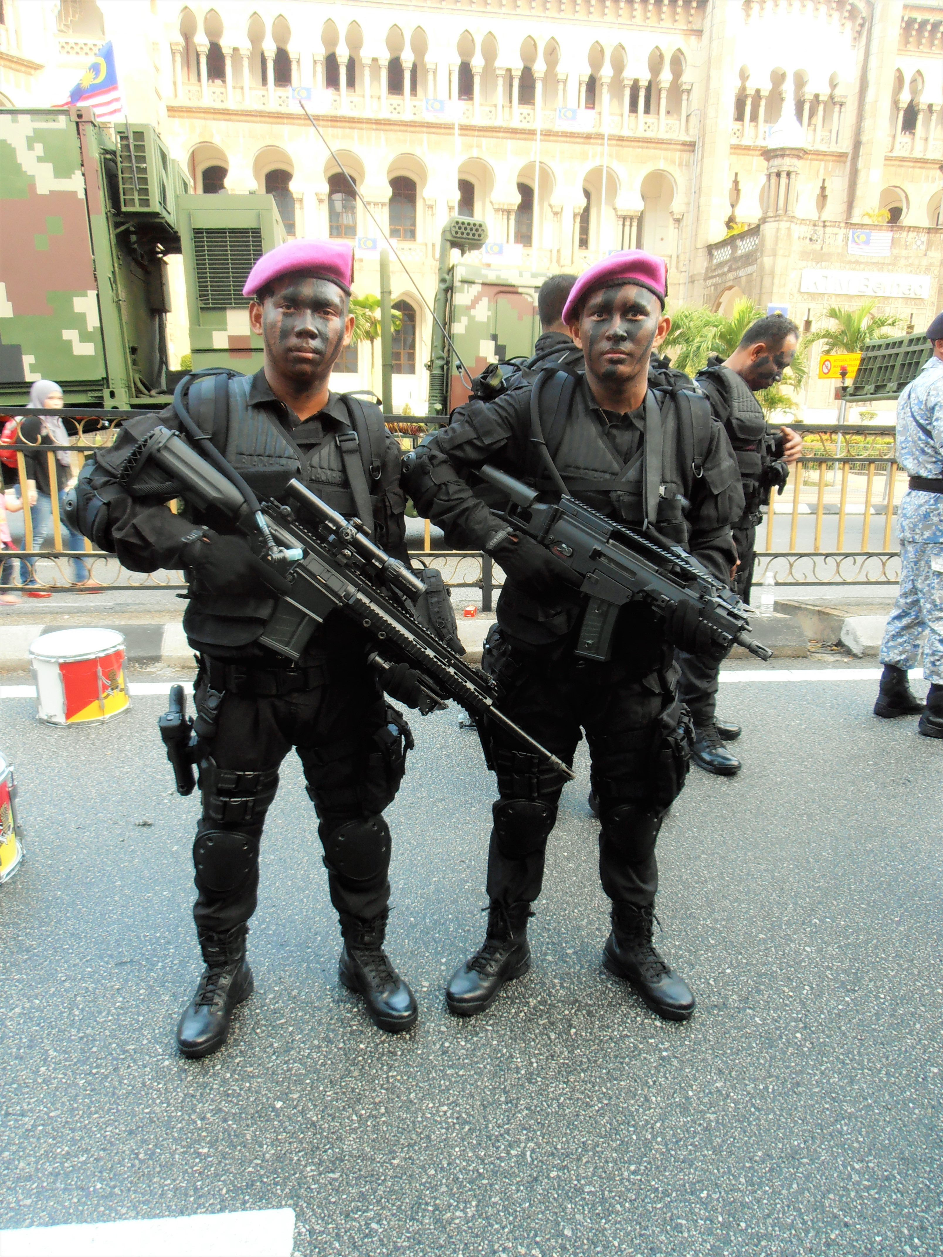 Members from PASKAL, Royal Malaysian Navy wearing black uniforms stand with HK417 Sniper, equipped with Schmidt & Bender 1-8x24 Police Marksman Short Dot Riflescope and HK G36C during the 59th Merdeka Day in Kuala Lumpur.